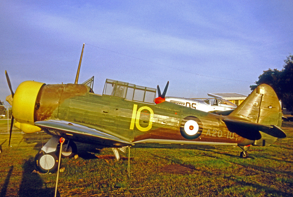 Commonwealth CA-1 Wirraway CA-1 A20-10 preserved at Moorabbin Airport Melbourne Vic in 1970